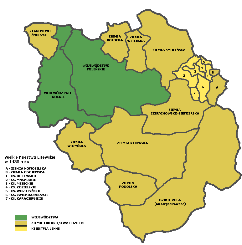 Great Duchy of Lithuania in 1430 with territorial divisions. Green: voivodeships, orange: lands, white yellow: fiefs.